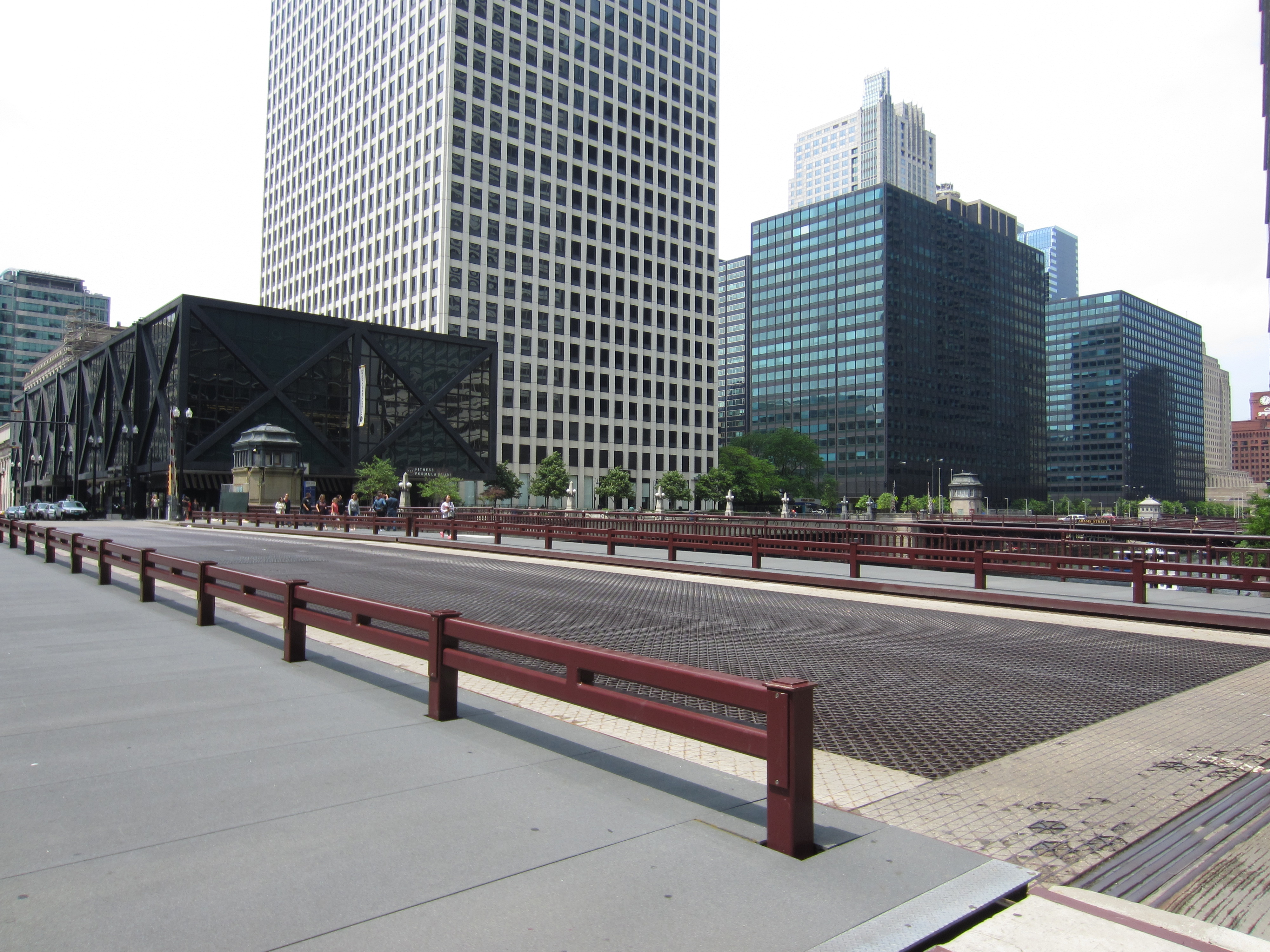 Chicago, Illinois, June 2015